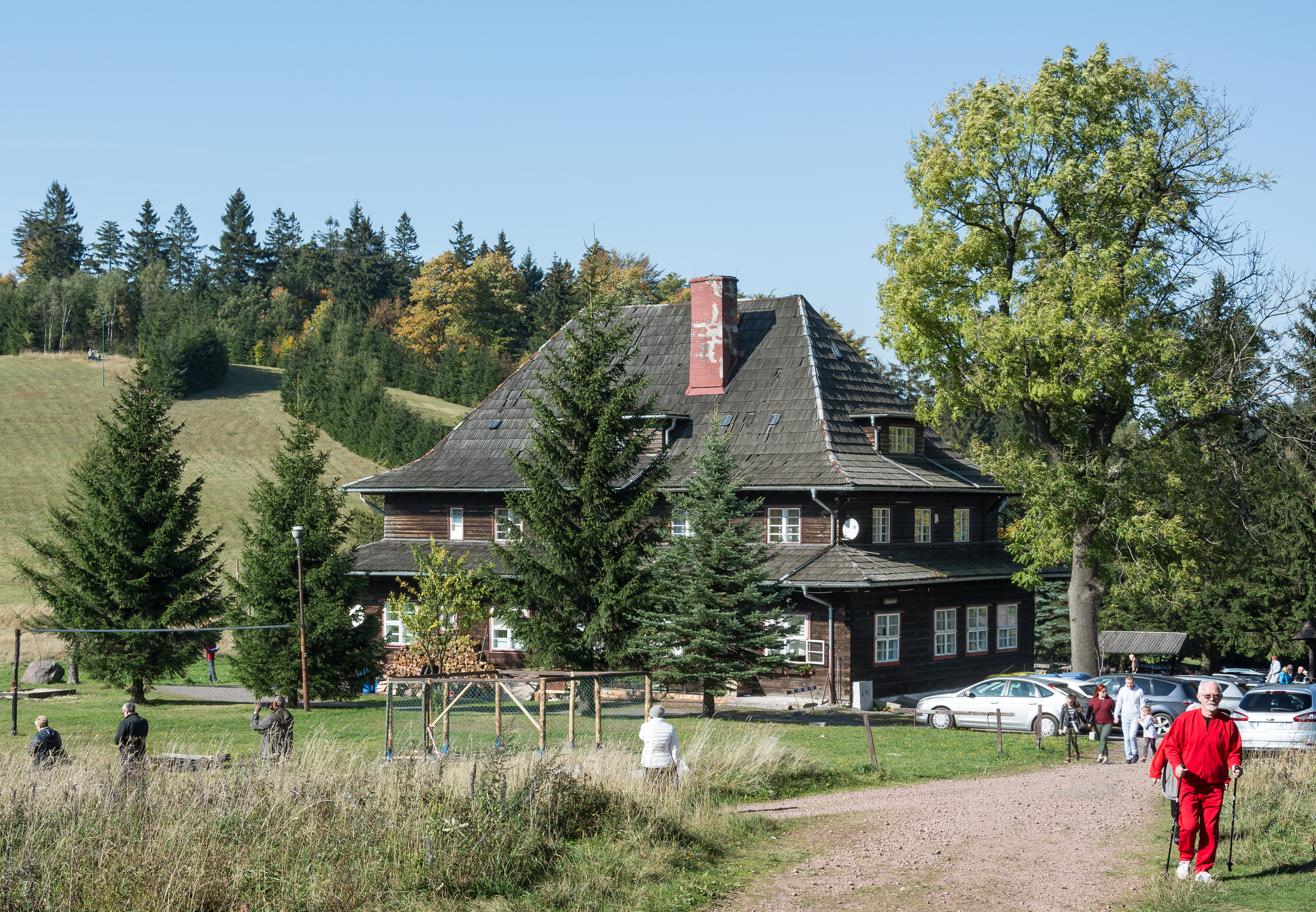 Andrzejówka hostel